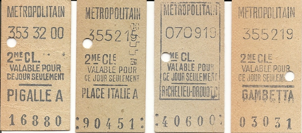 Tickets of the metro of Paris in the 1960's. Is written the name of the station where they were sold. They where punched manually by an attendant.